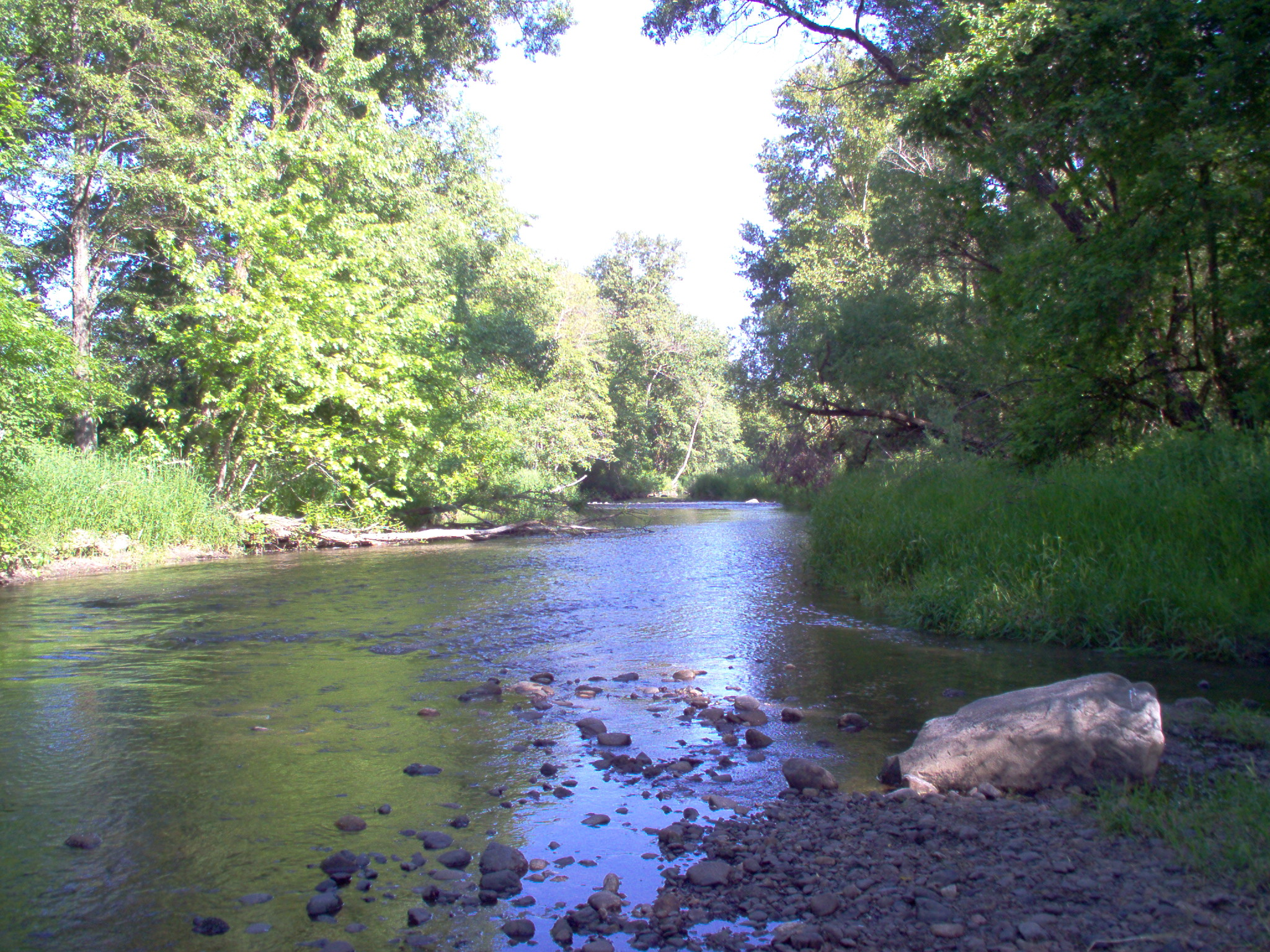 I took this picture myself. The location is near the foot bridge between the Bear Creek Greenway and Alba Drive in Medford; coordinates are approximately . Zab 17:13, 23 May 2007 (UTC)